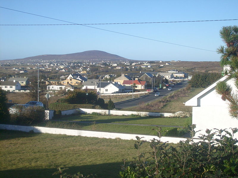 The R257 which goes through Gweedore.